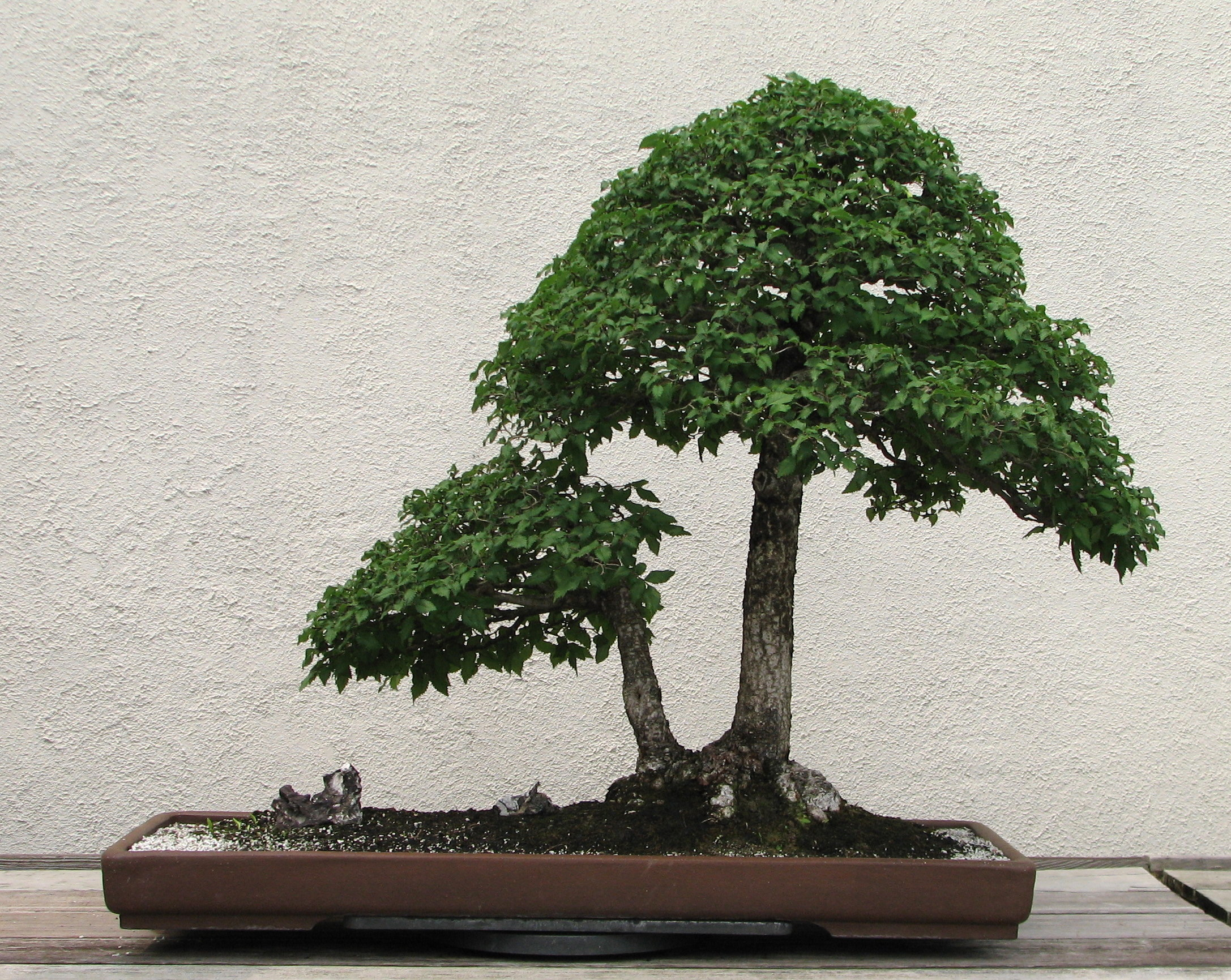 A Smoothleaf Elm (Ulmus minor) bonsai on display at the National Bonsai & Penjing Museum at the United States National Arboretum. According to the tree's display placard, it has been in training since 1982. It was donated by Keith B. Scott. This is the "back" of the tree.